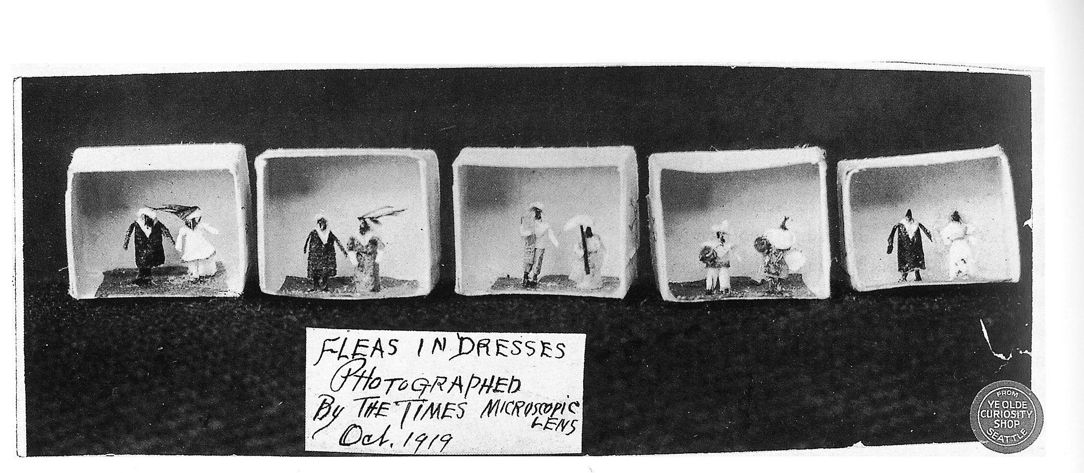 Fleas in dresses at Ye Olde Curiosity Shop (Seattle, Washington). This is a 1919 Seattle Times photo of a curiosity from Mexico still on display at the shop. The labels were presumably added to it by shop founder J. E. Standley.